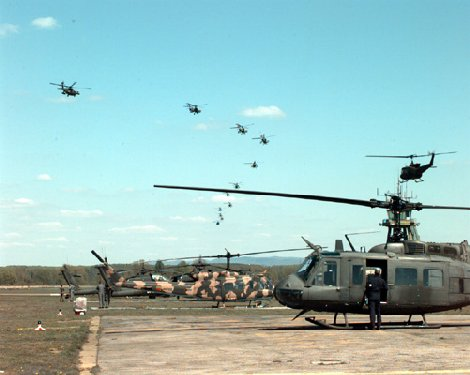 Off to the mission. Coleman Airfield, Lampertheim, Germany. A flight of 10 AH-64 Apaches, belonging to the 1/229th Attack Helicopter Regiment based in Fort Bragg, NC, are bracketed by a CH-47 Chinook and UH-60 Blackhawk as they fly to Grafenwoehr Training Area for verification of weapons systems.